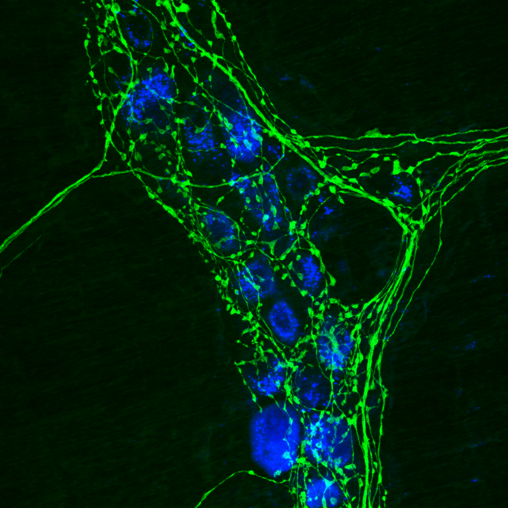 A myenteric ganglion of a mouse with tyrosine hydroxylase (denoting sympathetic autonomic axons) labeled by immunohistochemistry (green) acquired with a laser scanning confocal microscope. Blue color is UV-range autofluorescence from postganglionic neurons.